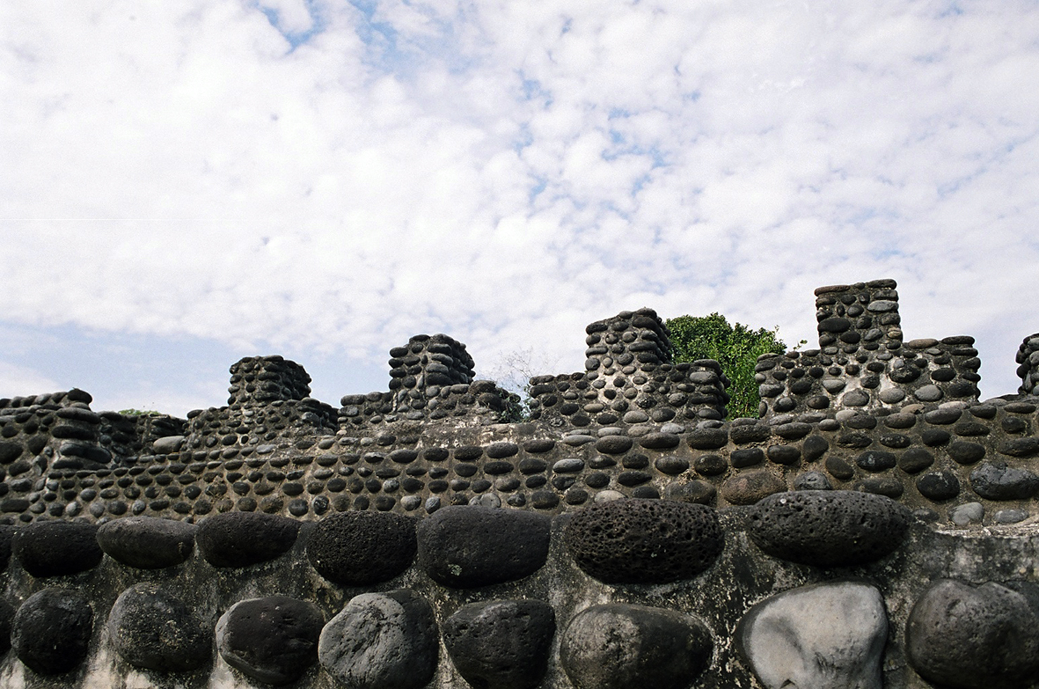 Zona Arqueológica de Zempoala, Detalle 2 Cempoala, Veracruz